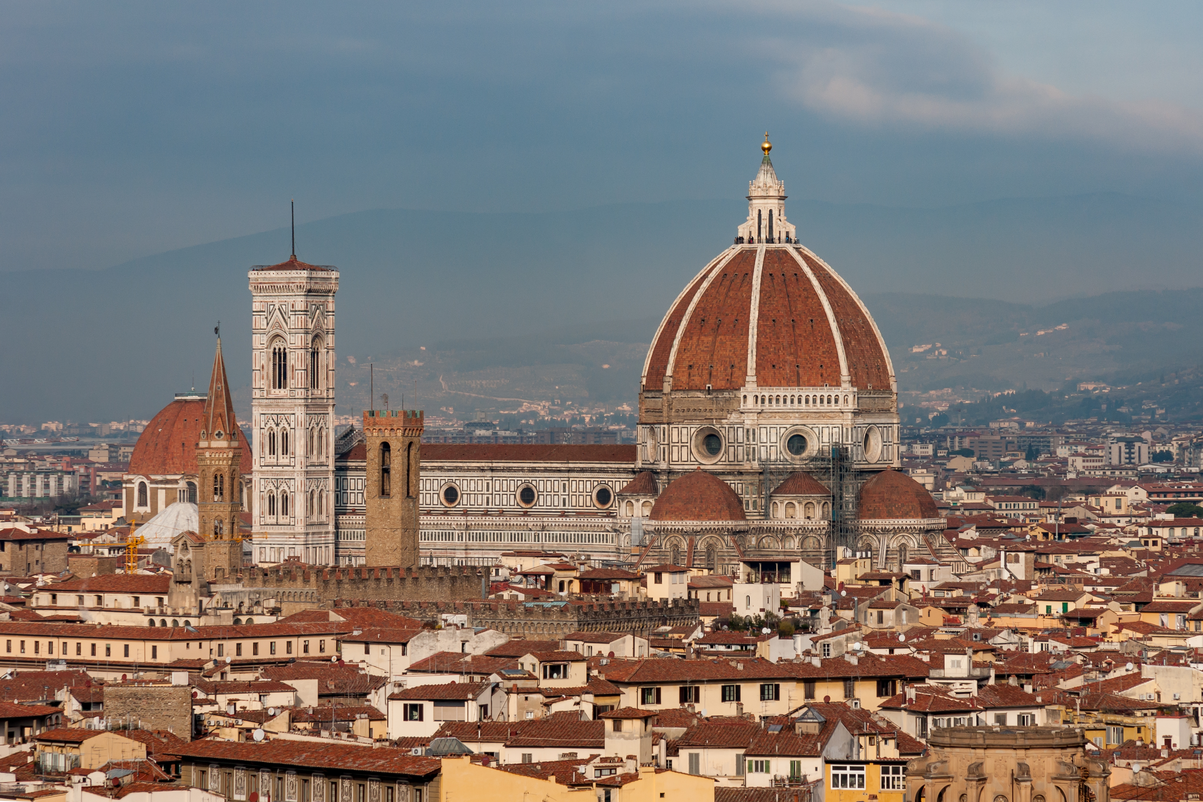 Florence, Italy: Remote view of Santa Maria del Fiore